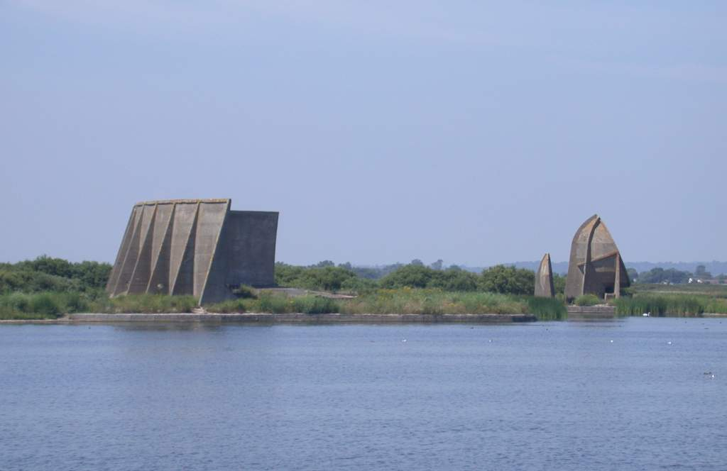 Acoustic mirrors in Denge, Kent, England.